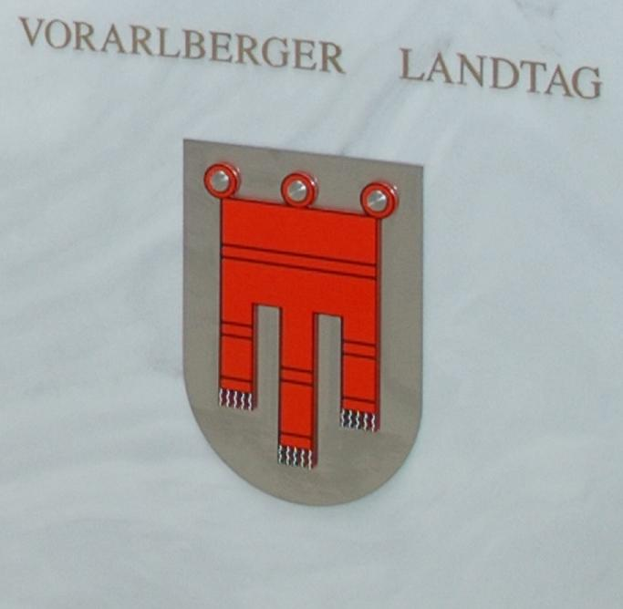 Coat of arms of Vorarlberg in the provincial parliament.